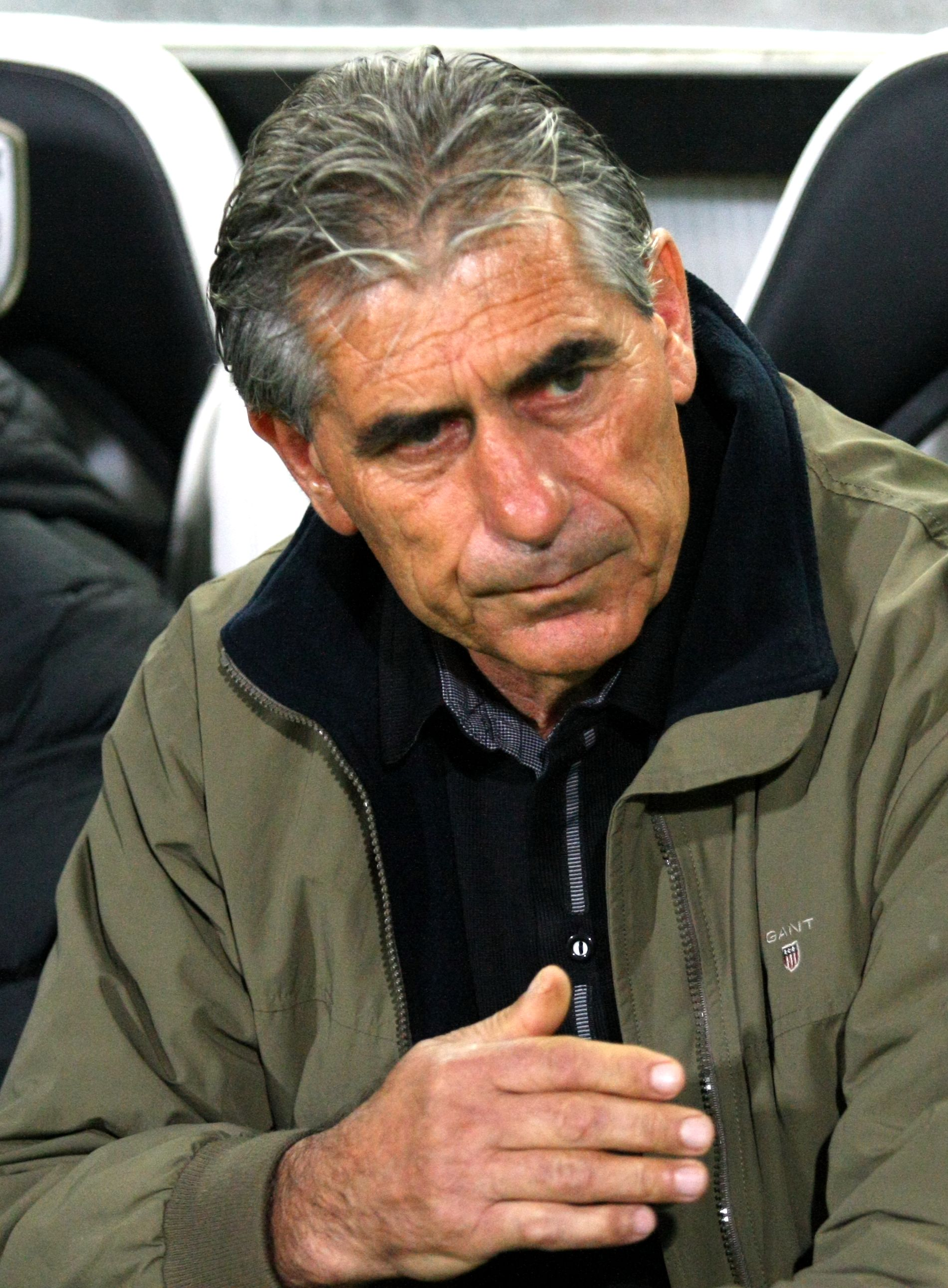 Angelos Anastasiadis (Greek: Άγγελος Αναστασιάδης; born 8 March 1953) is a Greek football manager and former international footballer. He previously coached numerous clubs in Greece including PAOK, Panathinaikos, Platanias and PAS Giannina as well as the Greek and Cypriot national teams.